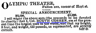 Routh Goshen in the Brooklyn Eagle on March 01, 1871. Notes Source: Brooklyn Eagle, March 01, 1871 Removed from the following pages: Middlebush Giant --OrphanBot 23:35, 14 March 2006 (UTC)